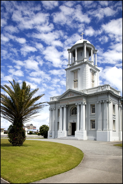 St Mary's Catholic Church, Hokitika